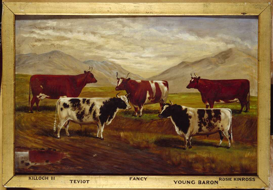 Portraits of Killoch II (a cow), Teviot (a bull), Fancy (a cow), Young Baron (a bull), and Rosie Kinross (a cow) by the official artist for Dalgety & Co Possibly one of the 'Three portraits of prize cattle' exhibited at the Colonial & Indian Exhibition, London, 1886 Inscriptions: Recto - bottom left: Geo F. Fodor in brushpoint. Also the names of the cattle painted on the frame Physical Description: Oil on canvas, 490 x 735 mm